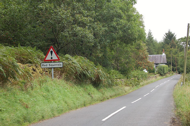 Red squirrel road sign On the A708 about 4km beyond Moffat.